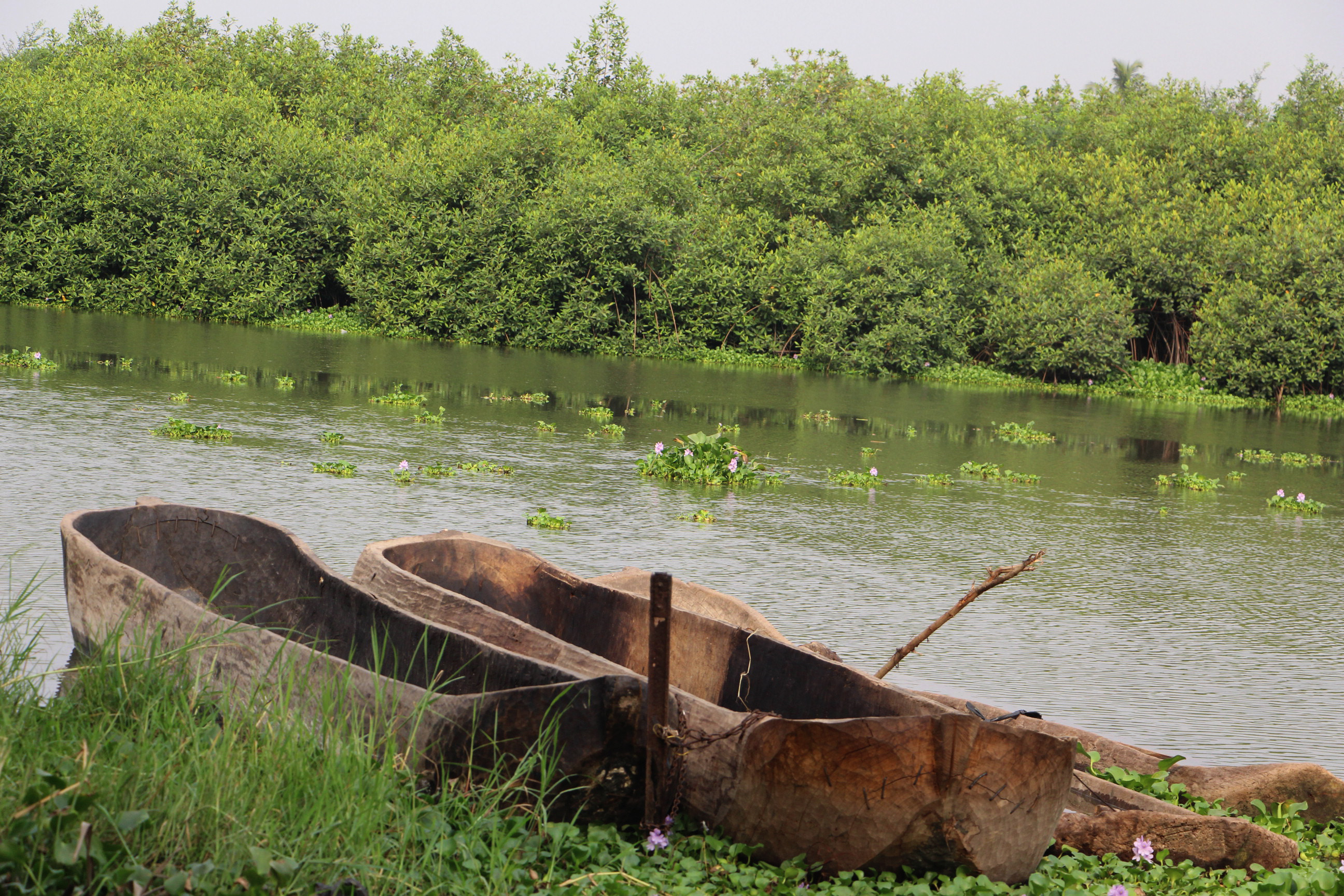 a resting place for lovers This is an image with the theme "Africa on the Move or Transport" from: Benin